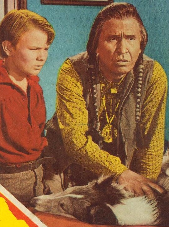 Gary Gray (left) and Chief Yowlachie in The Painted Hills (1951) - promotional poster (cropped)